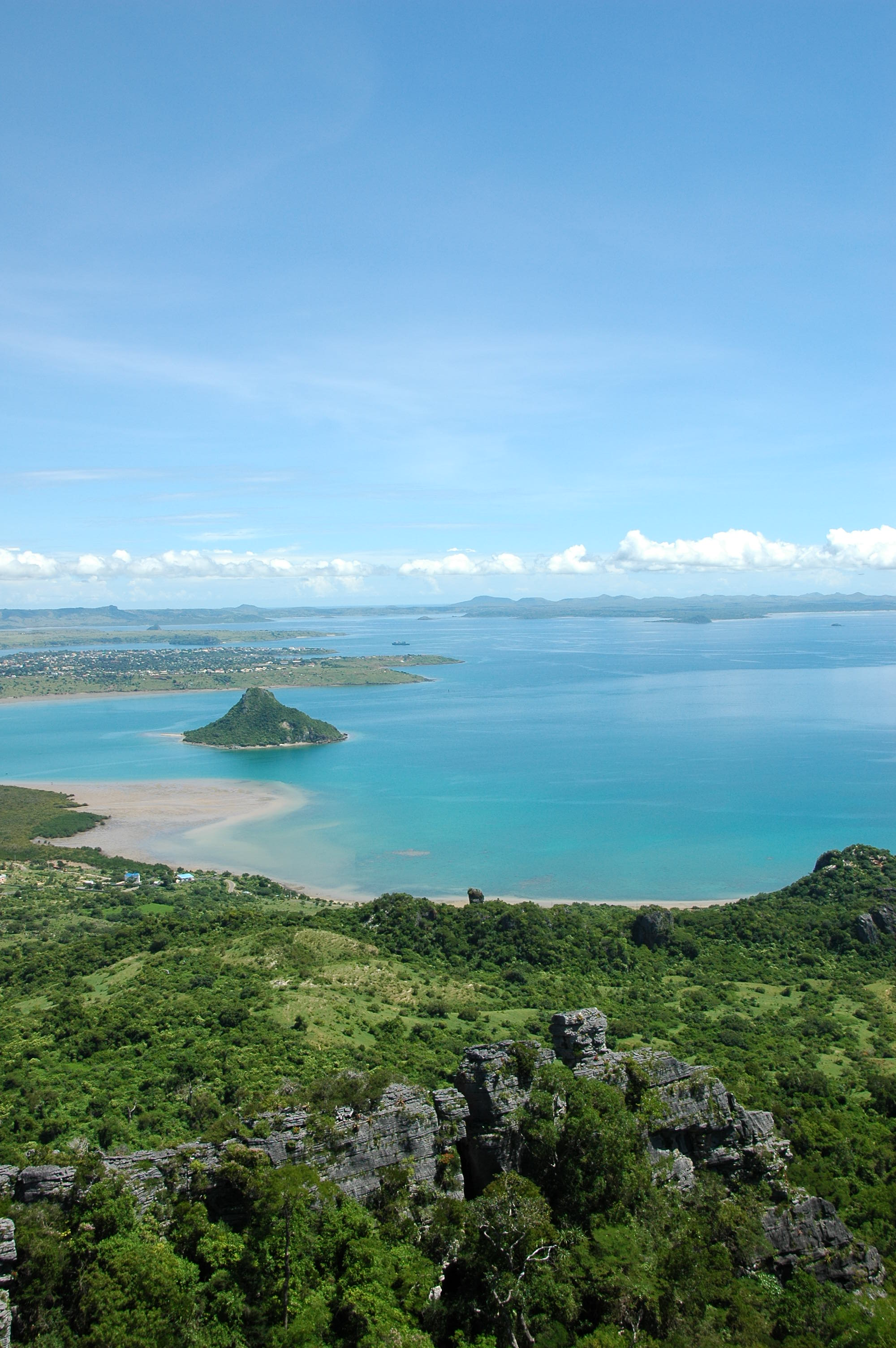 View of the Bay of Diego Suarez taken from the summit of Montagne des Francais